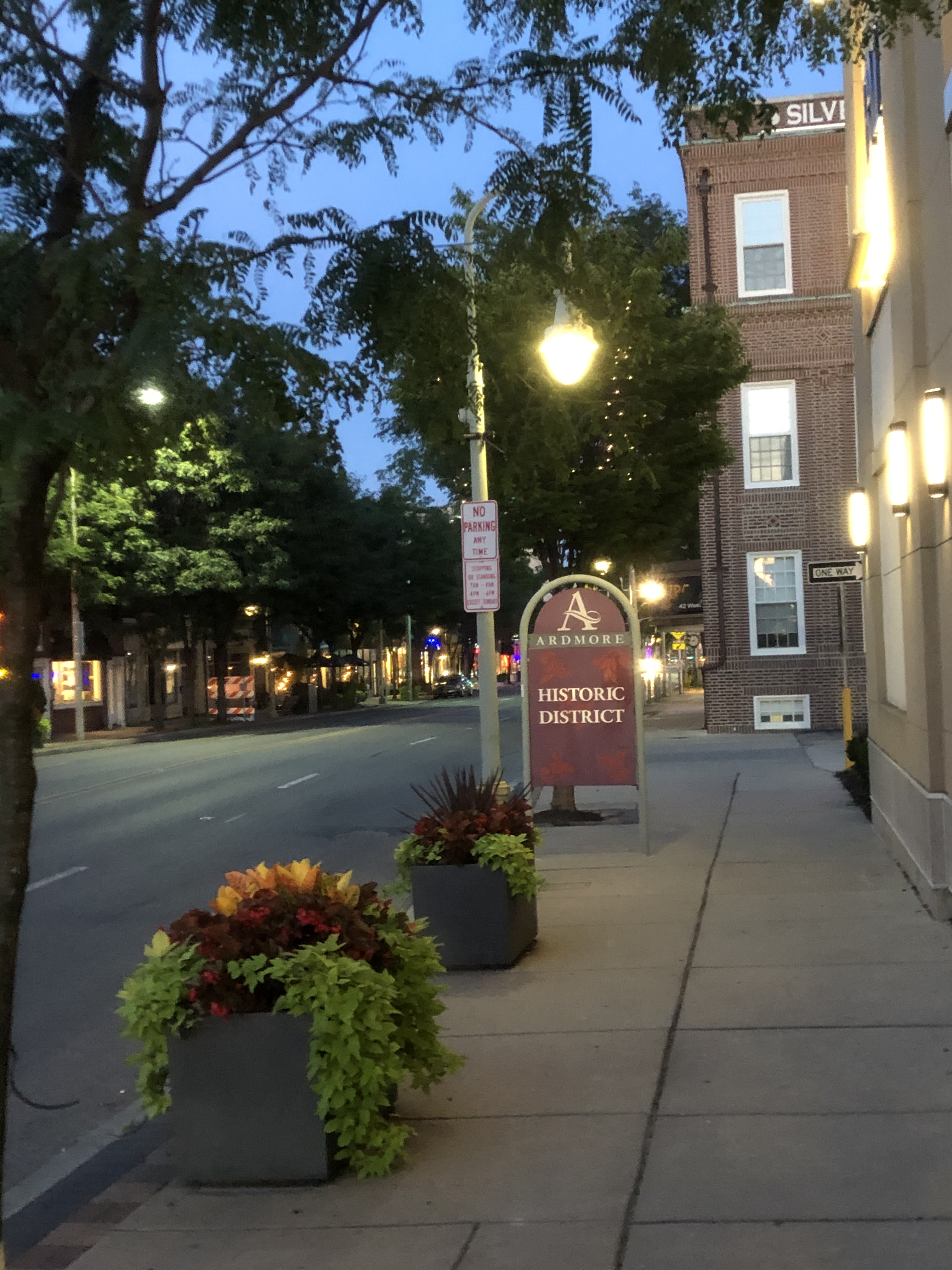 Ardmore PA